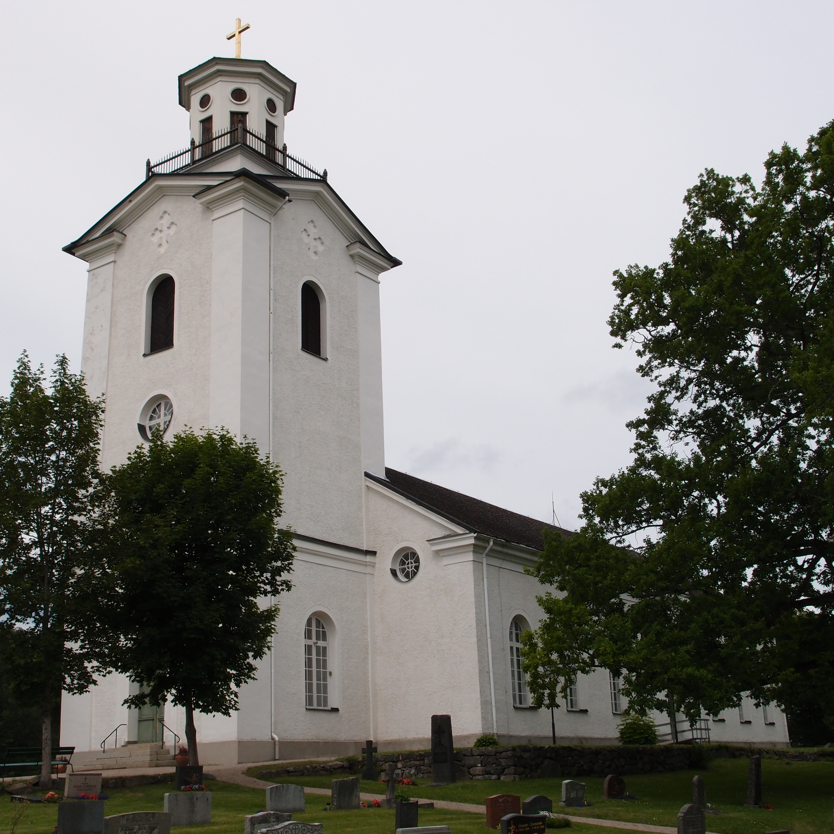 Korsberga Church